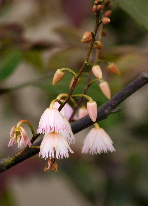 Elaeocarpus reticulatus Elaeocarpaceae Australian rainforest small tree. The flowers are usually white but a pink form is in cultivation (sometimes called "Prima Donna") .au/e-ret.html This one is planted as a street tree in Brisbane